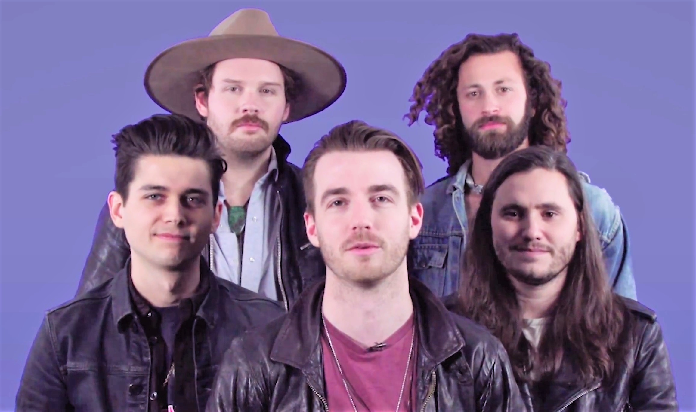 Country band LANCO describe their 17 Favorite Things to Cntrl+Alt+Delete.